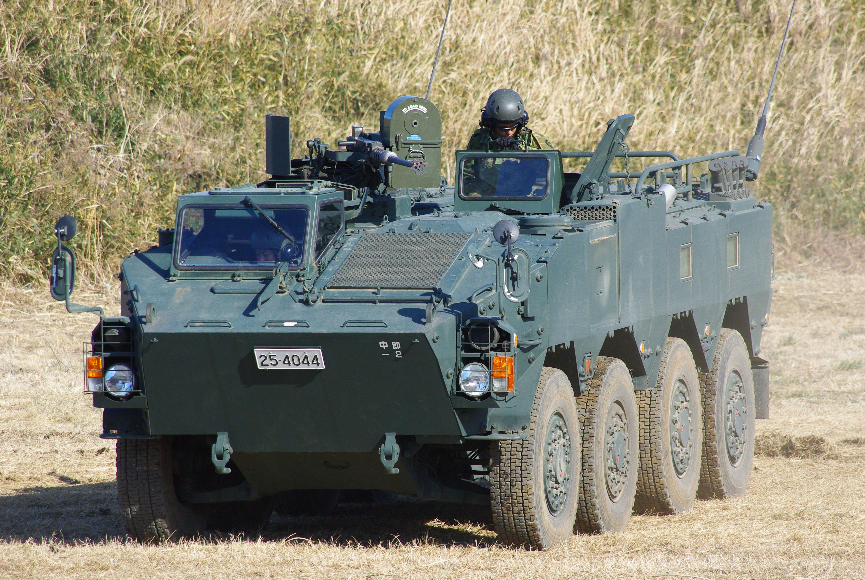 JGSDF APC Type 96-II.Taken by Los688,in Narashino,Japan,at 08-Jan-2012,JGSDF 1st Airborne Brigade 2012 first drop manuver.PD-self ja:96式装輪装甲車（II型） 2012年01月08日、中央即応連隊、習志野演習場で撮影。